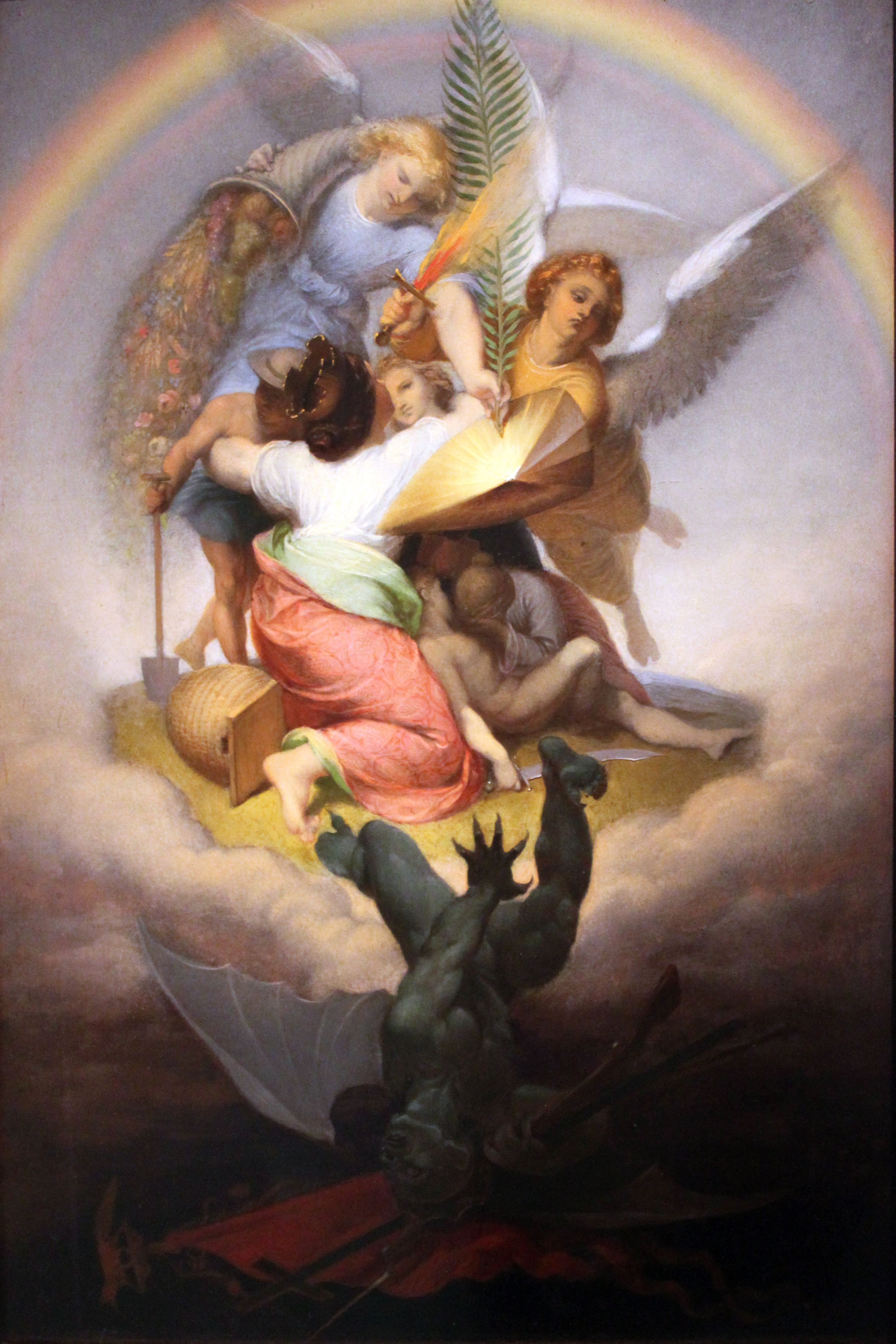 Allegory on the suppression of the 1848 Revolution